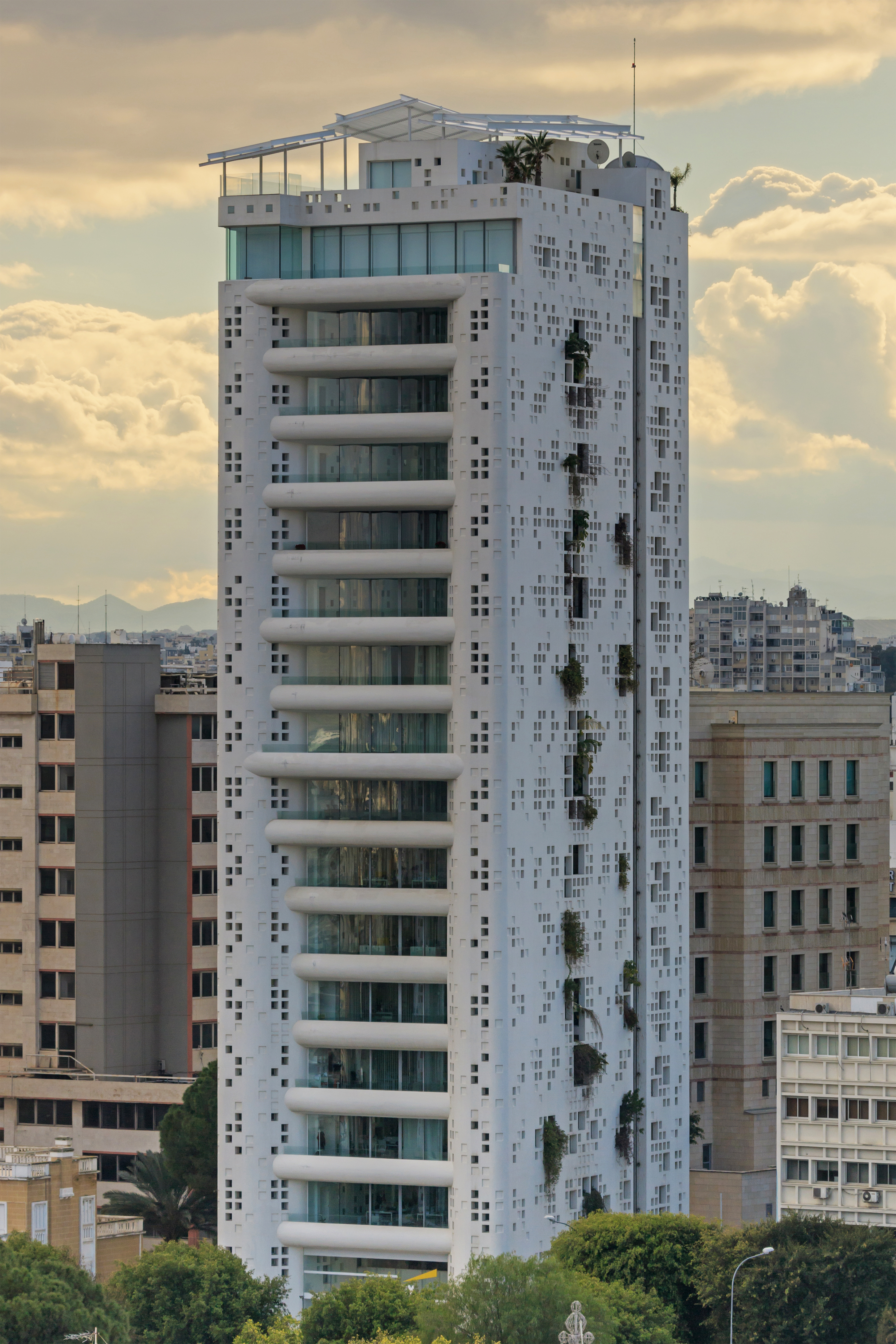 View of Tower 25 from Shacolas Tower (Ledra Street Observatory) in Nicosia, Cyprus